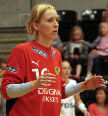 Katrine Lunde Haraldsen, Norwegian handball goalkeeper, during a 2008/09 Danish Championship play off match between KIF Vejen and Viborg HK. The picture was taken on 25 April 2009.